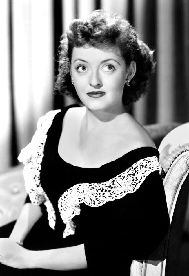 Publicity photo of Bette Davis